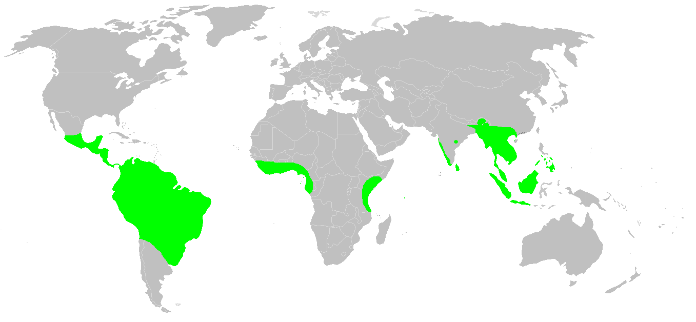 Modified distribution of caecilians based on Image:Distribution.gymnophiona.1.png